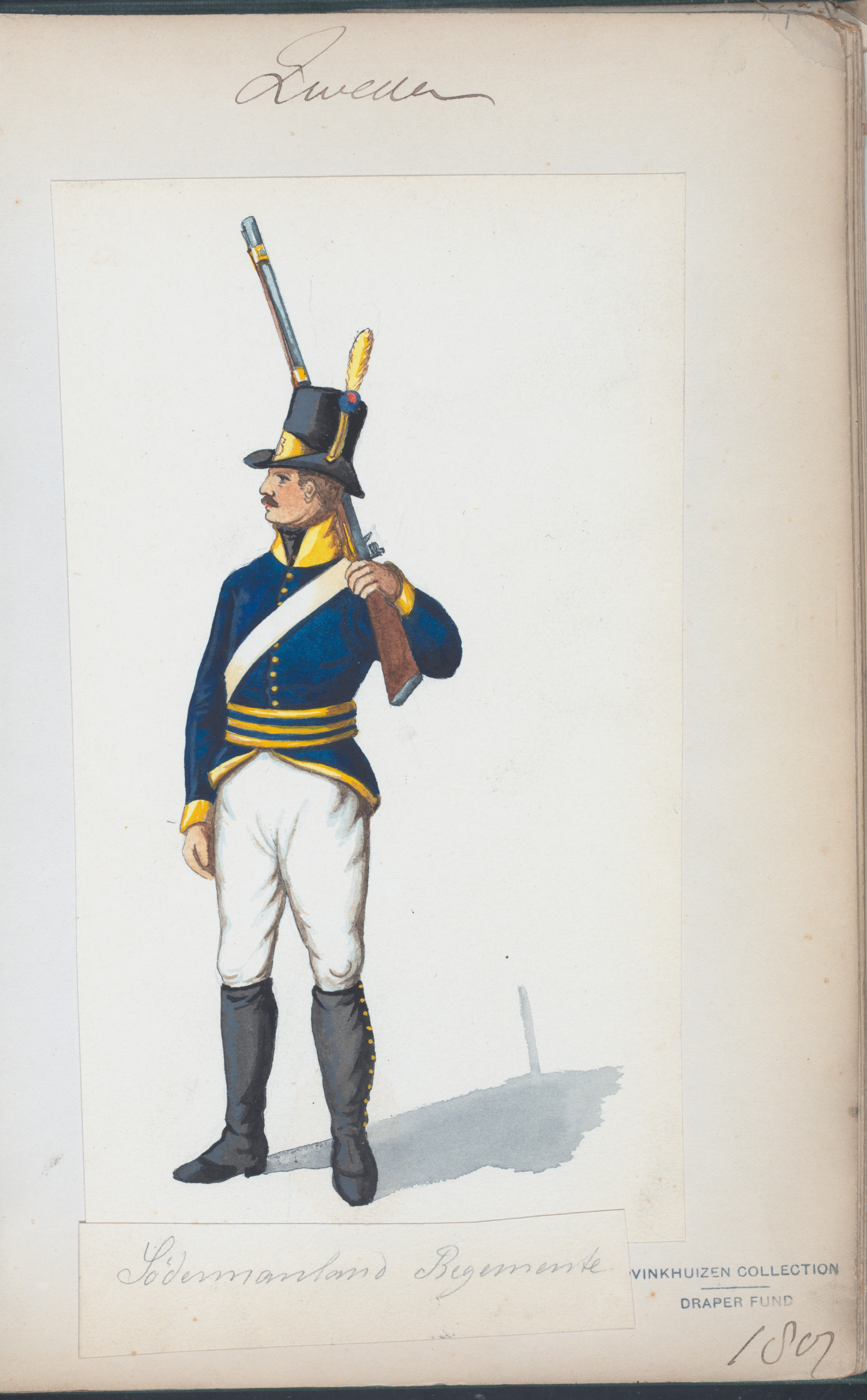 Norway and Sweden, 1807.